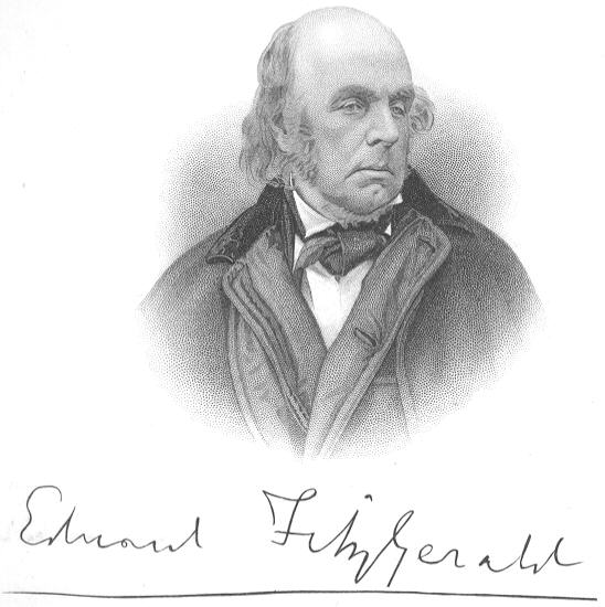 Drawing of poet Edward FitzGerald from the frontispiece of the 1901 version of Letters of Edward FitzGerald.